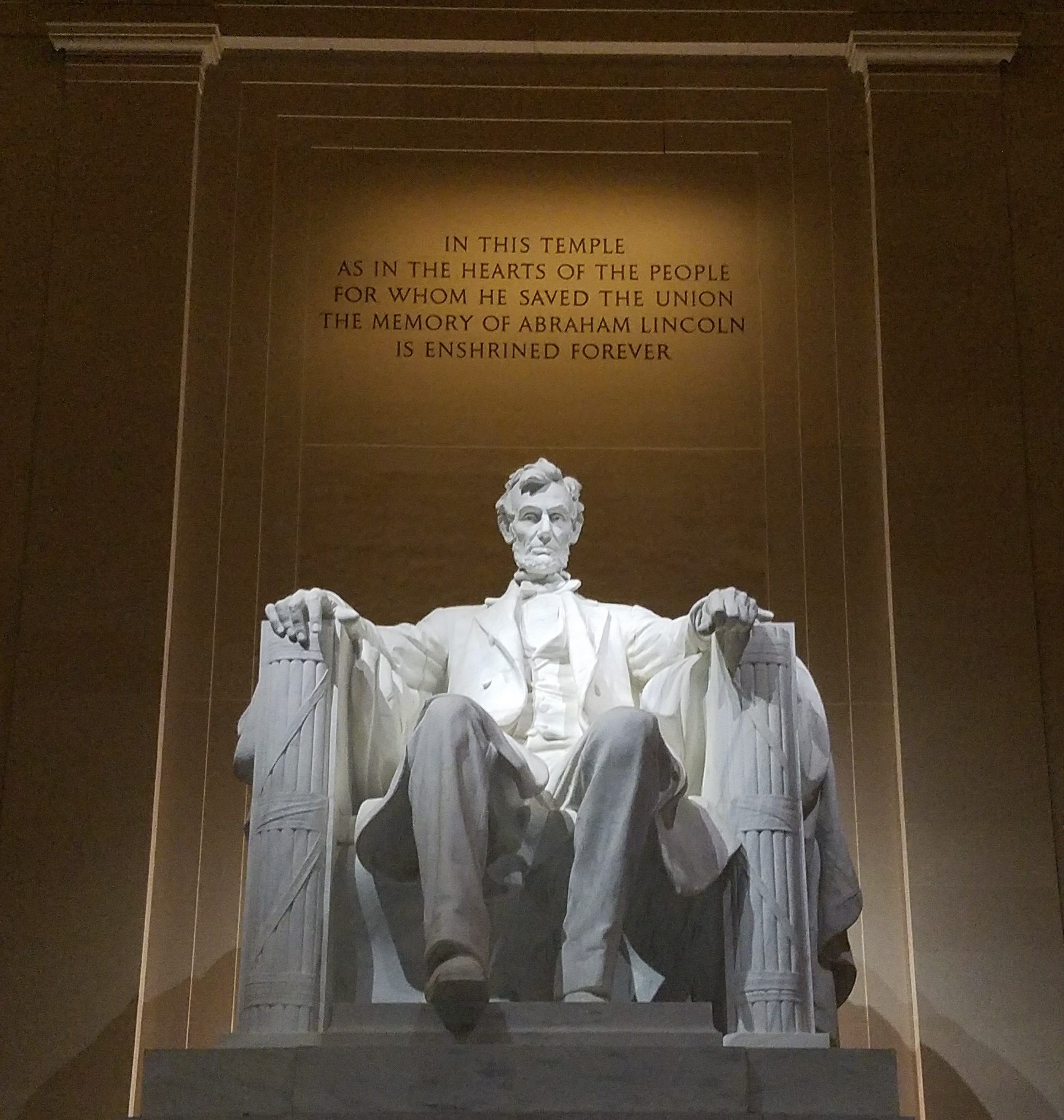 The Lincoln Memorial, built to honor the 16th President of the United States, Abraham Lincoln.